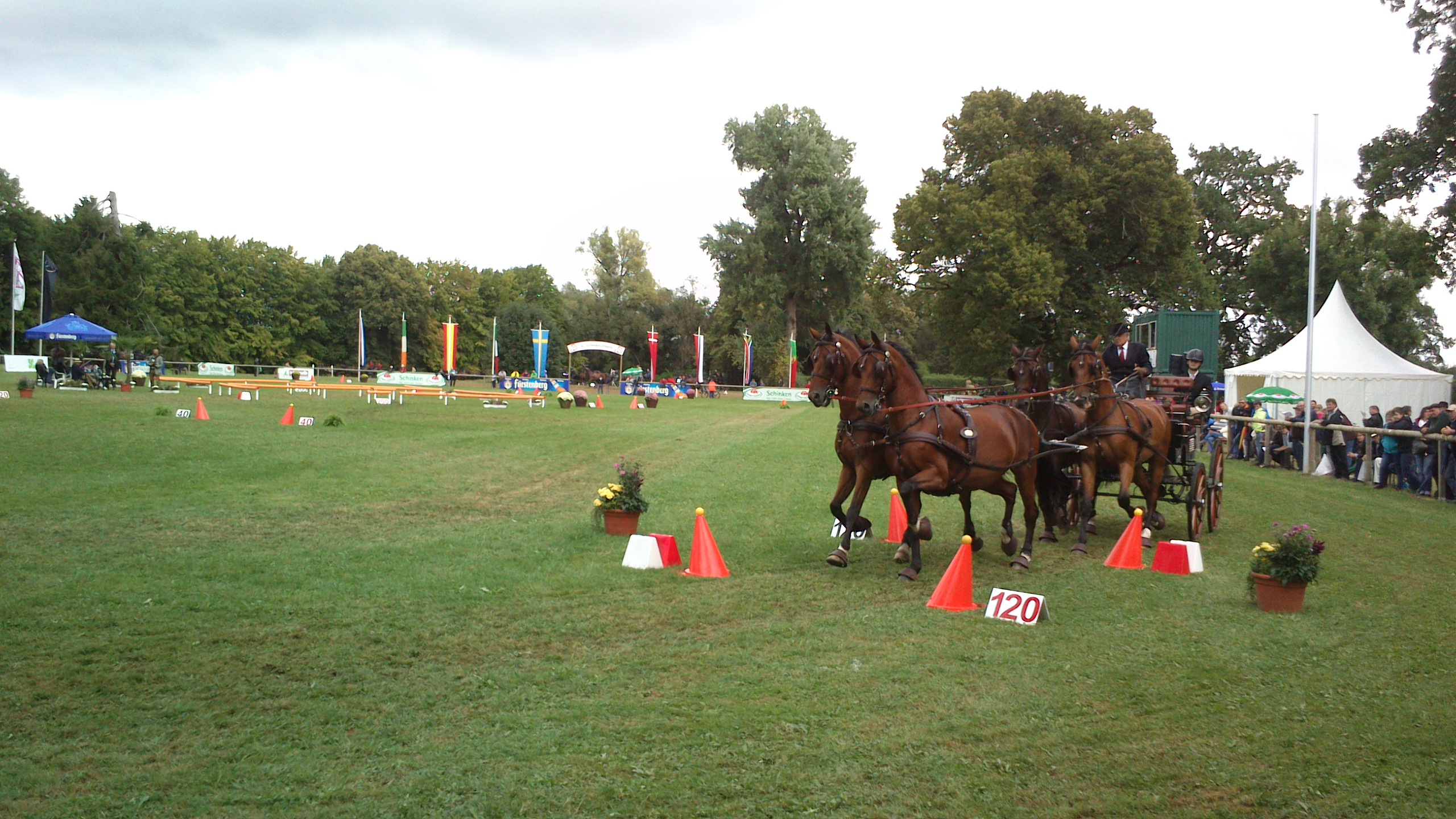 CAI***-H4 WCup Q Donaueschingen 16-9-2016 Kegelfahren 0488